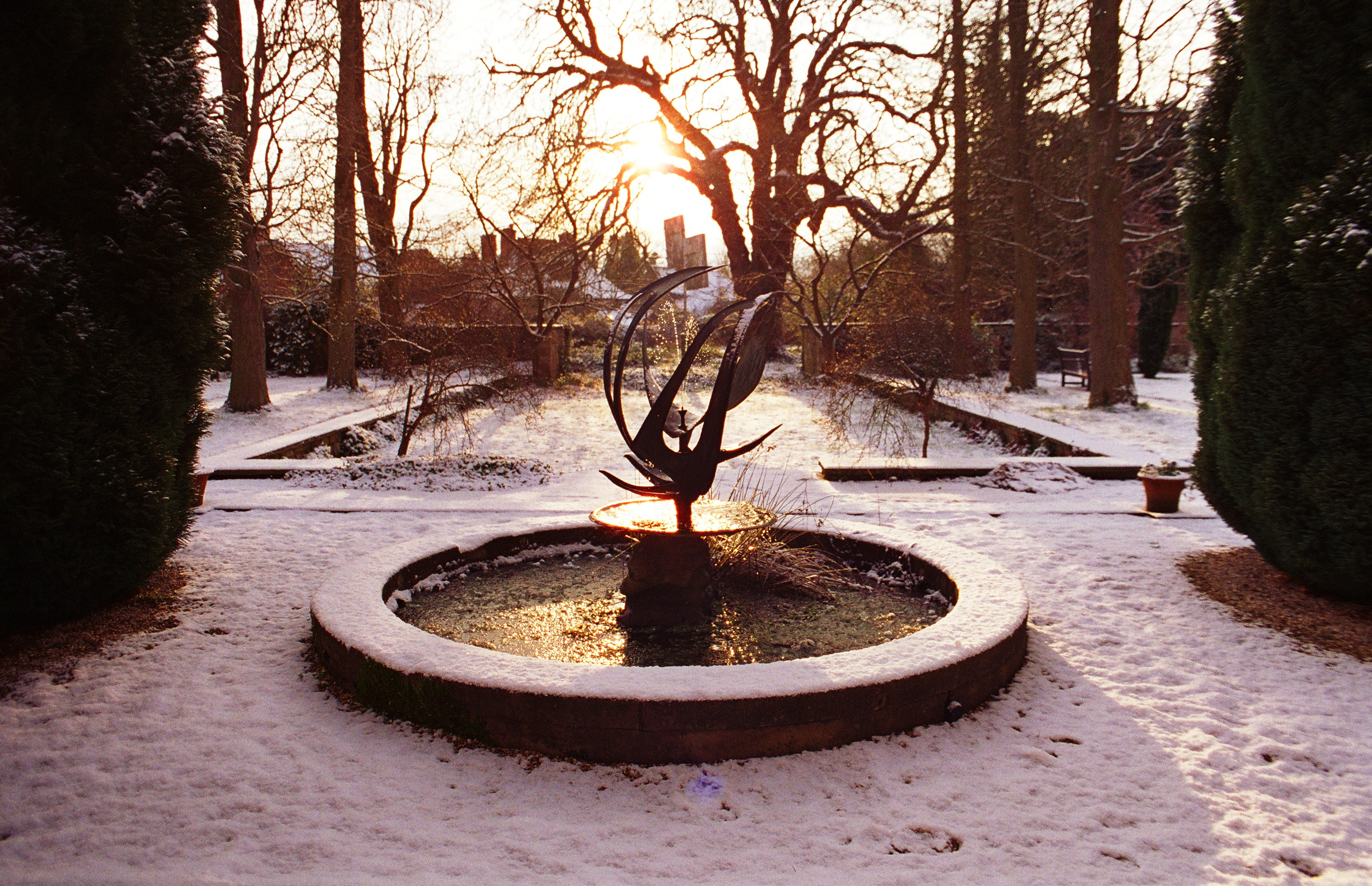 The Holywell Manor gardens under snow, Oxford.